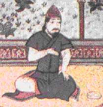 Alp Arslan led Seljuk Turks to victory against the Byzantines in 1071.